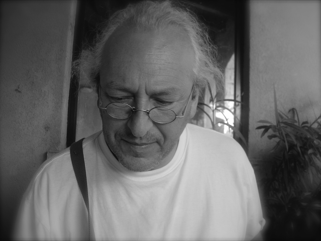 Paul from Reniere&Depla